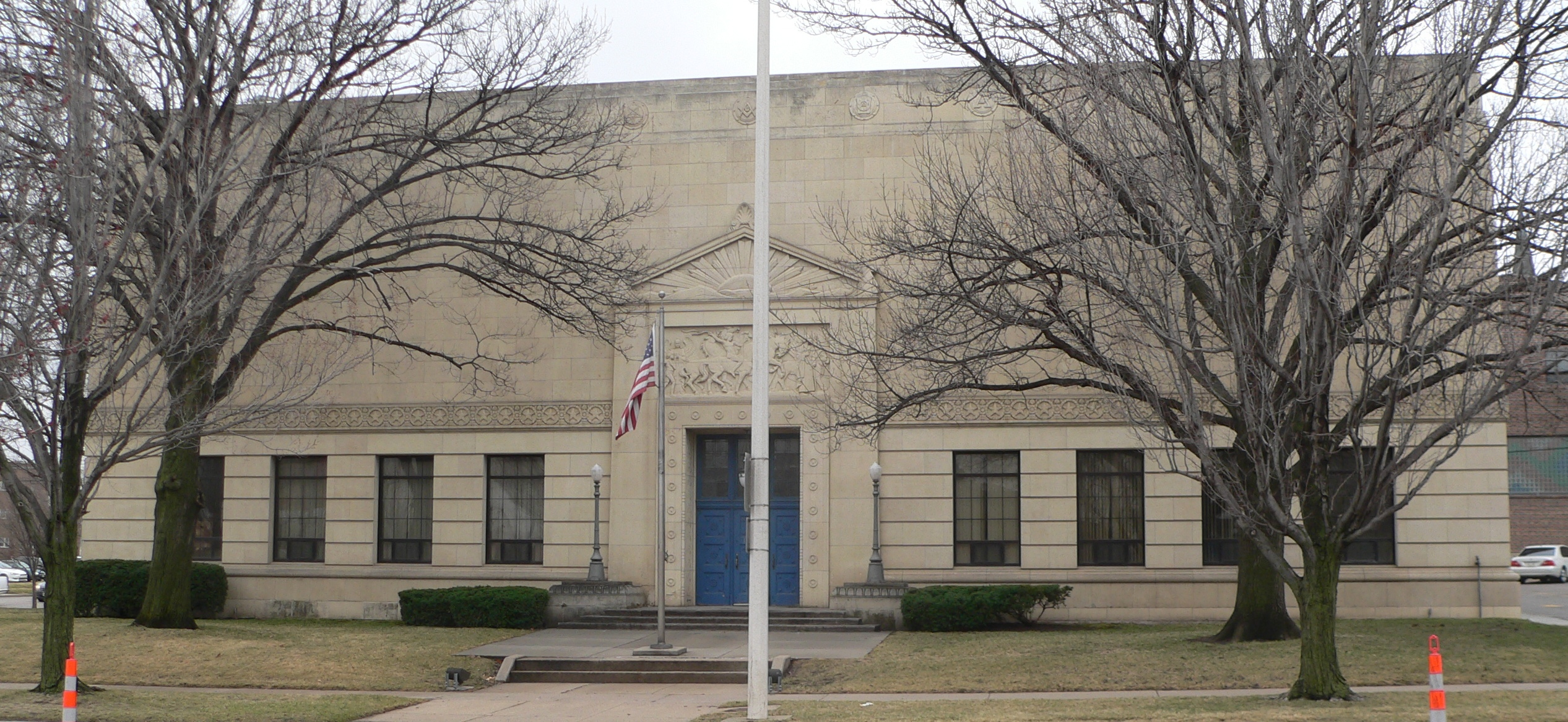 Masonic Temple, located at 1635 L Street in Lincoln, Nebraska; seen from the north, across L.